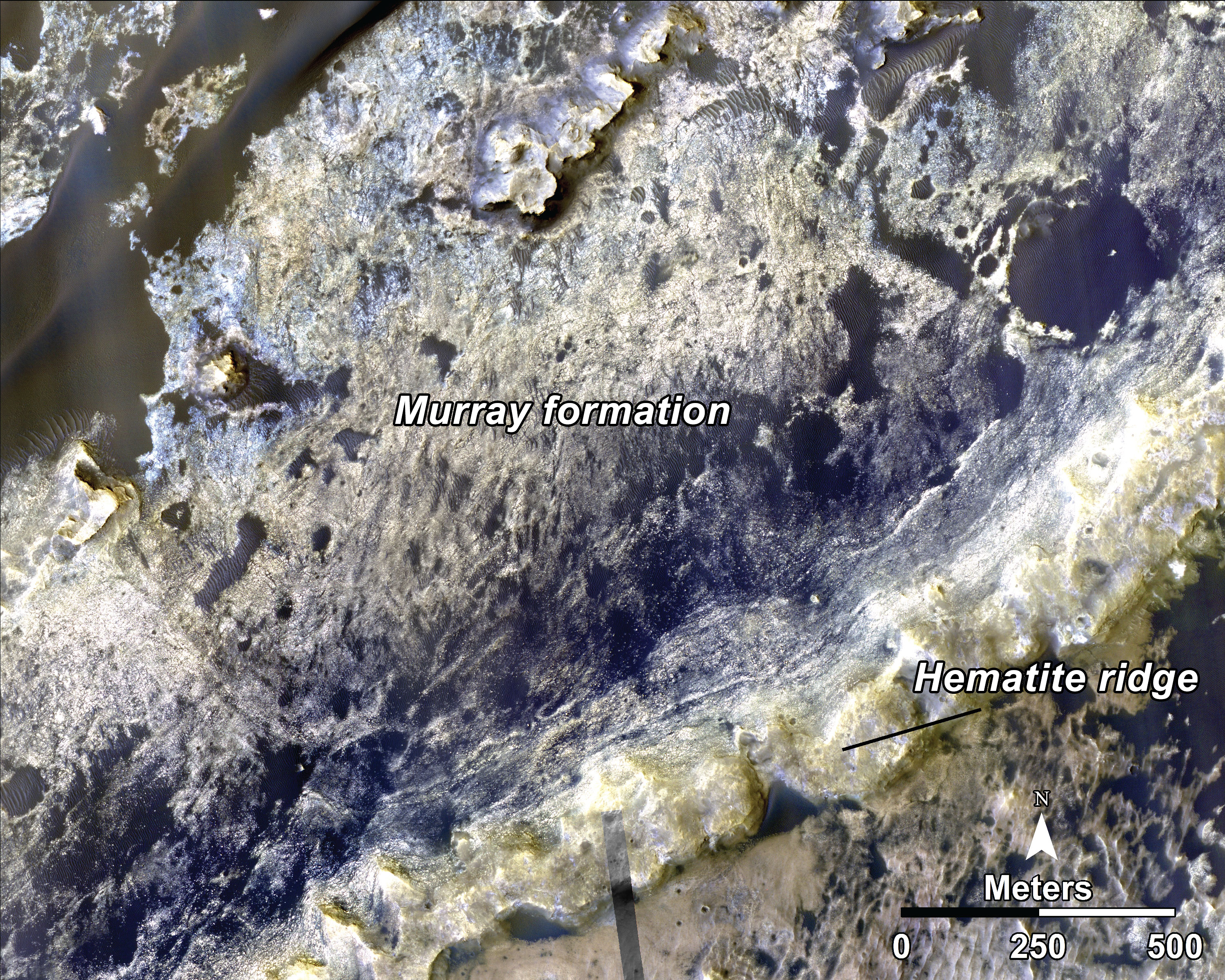 09.11.2014 Geological Transition - Slopes of Mount Sharp in Gale Crater on the planet Mars This image, taken with the High Resolution Imaging Science Experiment (HiRISE) camera, shows the transition between the "Murray Formation," in which layers are poorly expressed and difficult to trace from orbit, and the hematite ridge, which is made up of continuous layers that can be traced laterally for hundreds of meters. Orbital data shows that this change in bedding style between the Murray formation and the hematite ridge is also accompanied by a major change in layer composition. NASA's Curiosity rover will be exploring this formation. HiRISE is one of six instruments on NASA's Mars Reconnaissance Orbiter. The University of Arizona, Tucson, operates HiRISE, which was built by Ball Aerospace & Technologies Corp., Boulder, Colorado. NASA's Jet Propulsion Laboratory, a division of the California Institute of Technology in Pasadena, manages the Mars Reconnaissance Orbiter and Mars Science Laboratory projects for NASA's Science Mission Directorate, Washington.